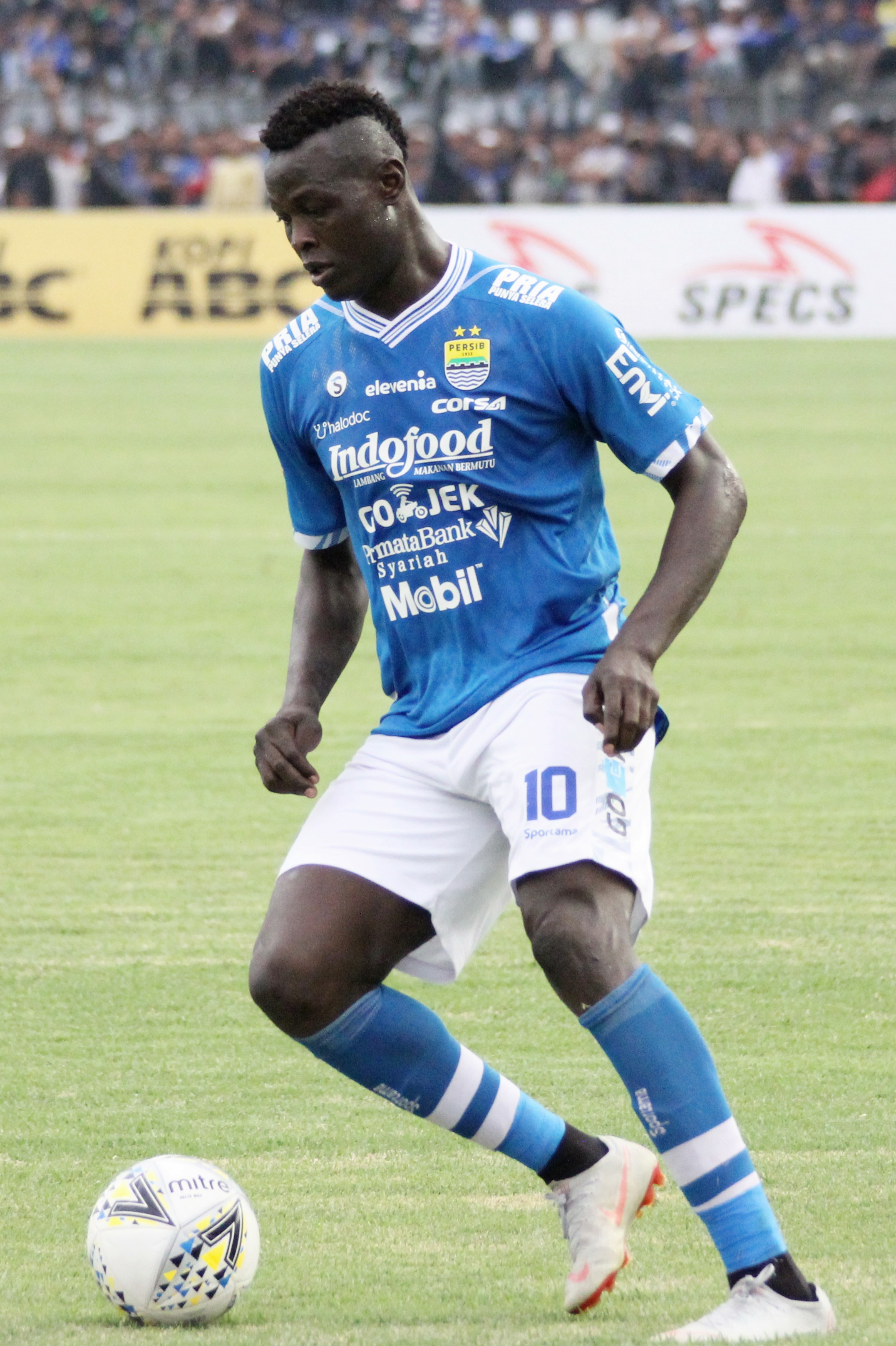 Eze Eze Eze 10